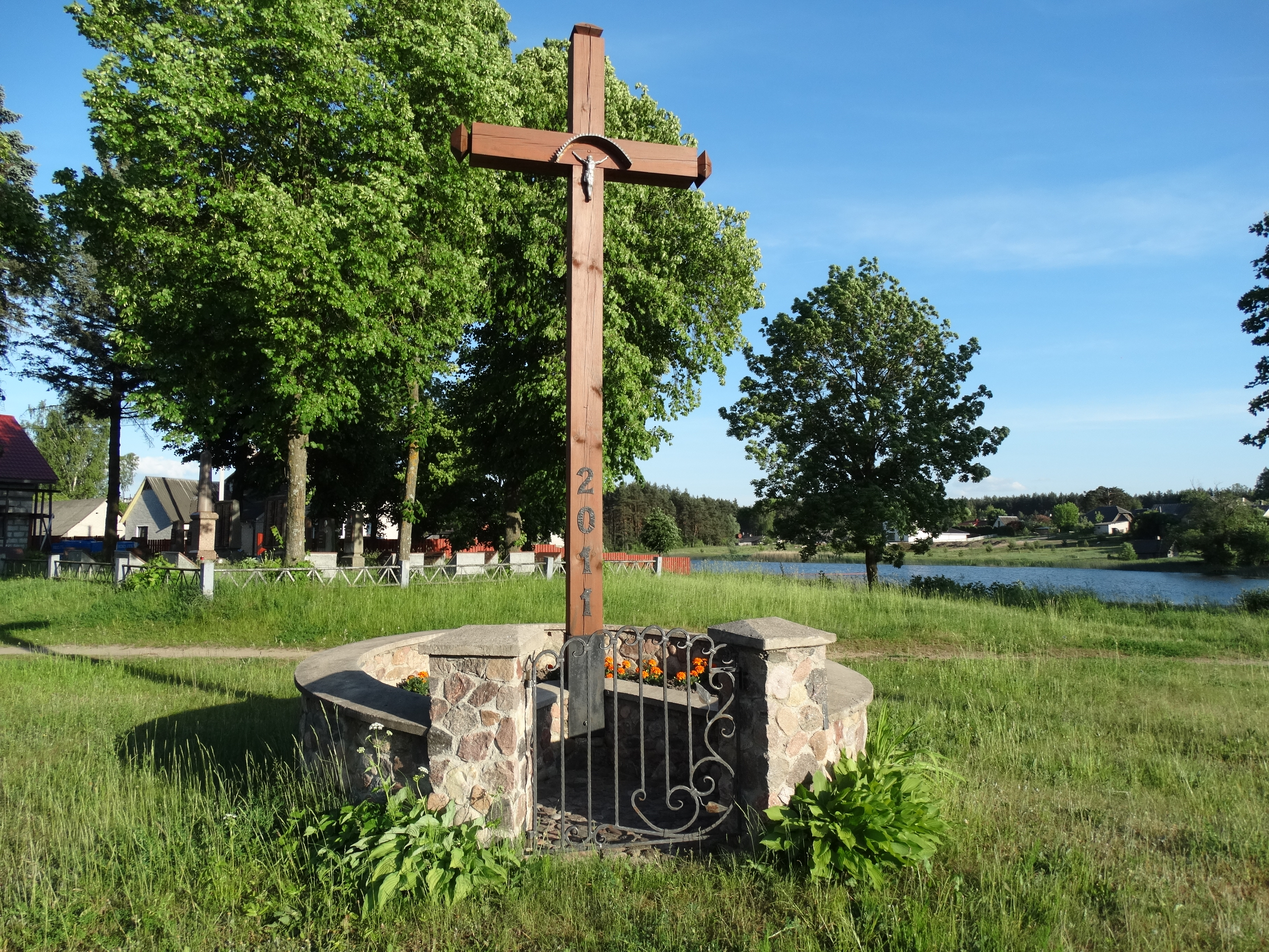 Mickūnai, Vilnius District, Lithuania